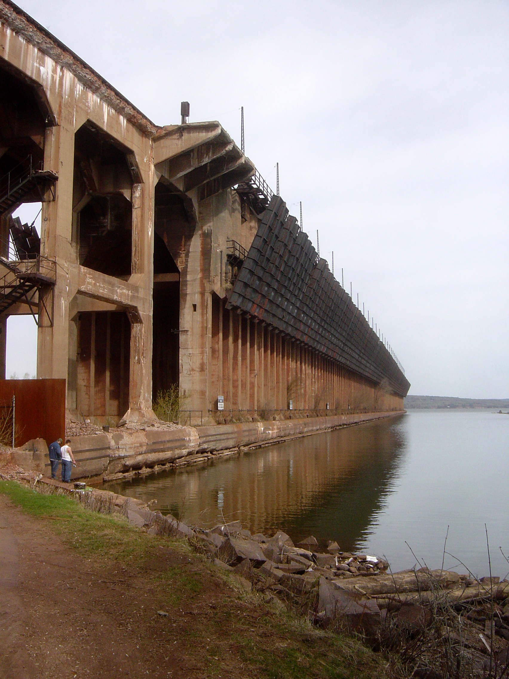 The massive Soo Line Ore Dock in Ashland, Wisconsin. Built in 1916, it is the last of what were once many such docks, the concrete structure is 80 feet high and 75 feet wide and in 1925 the dock was extended to 1800 feet; it was last used to ship ore in 1965.